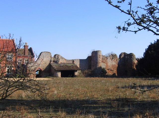 Claxton Castle was in the village of Claxton in Norfolk some 13 km south-east of Norwich (grid reference TG335038). This brick built castle was licensed in 1333. It was largely demolished in the 17th century to build Claxton Hall. Part of its outer wall and one tower remain.